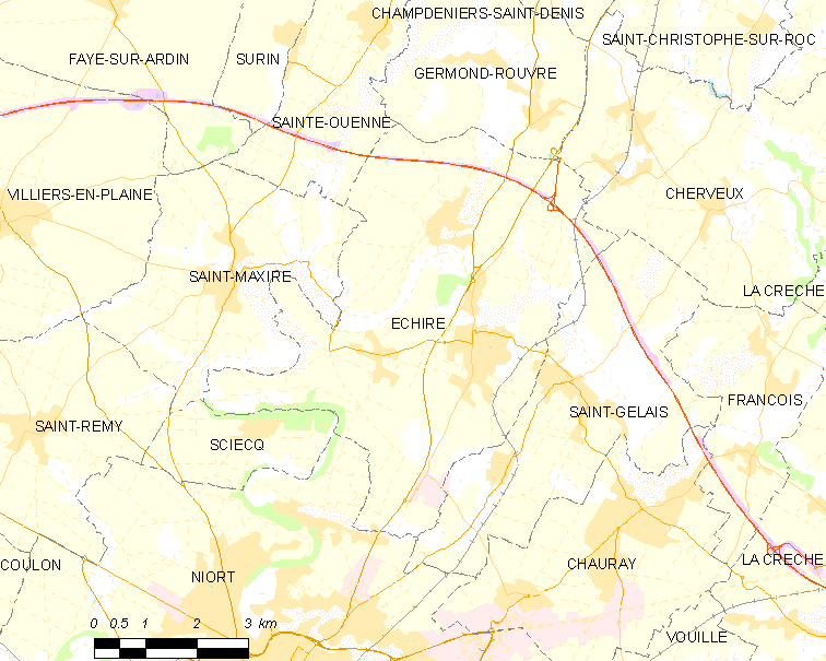 Map of French municipality Échiré